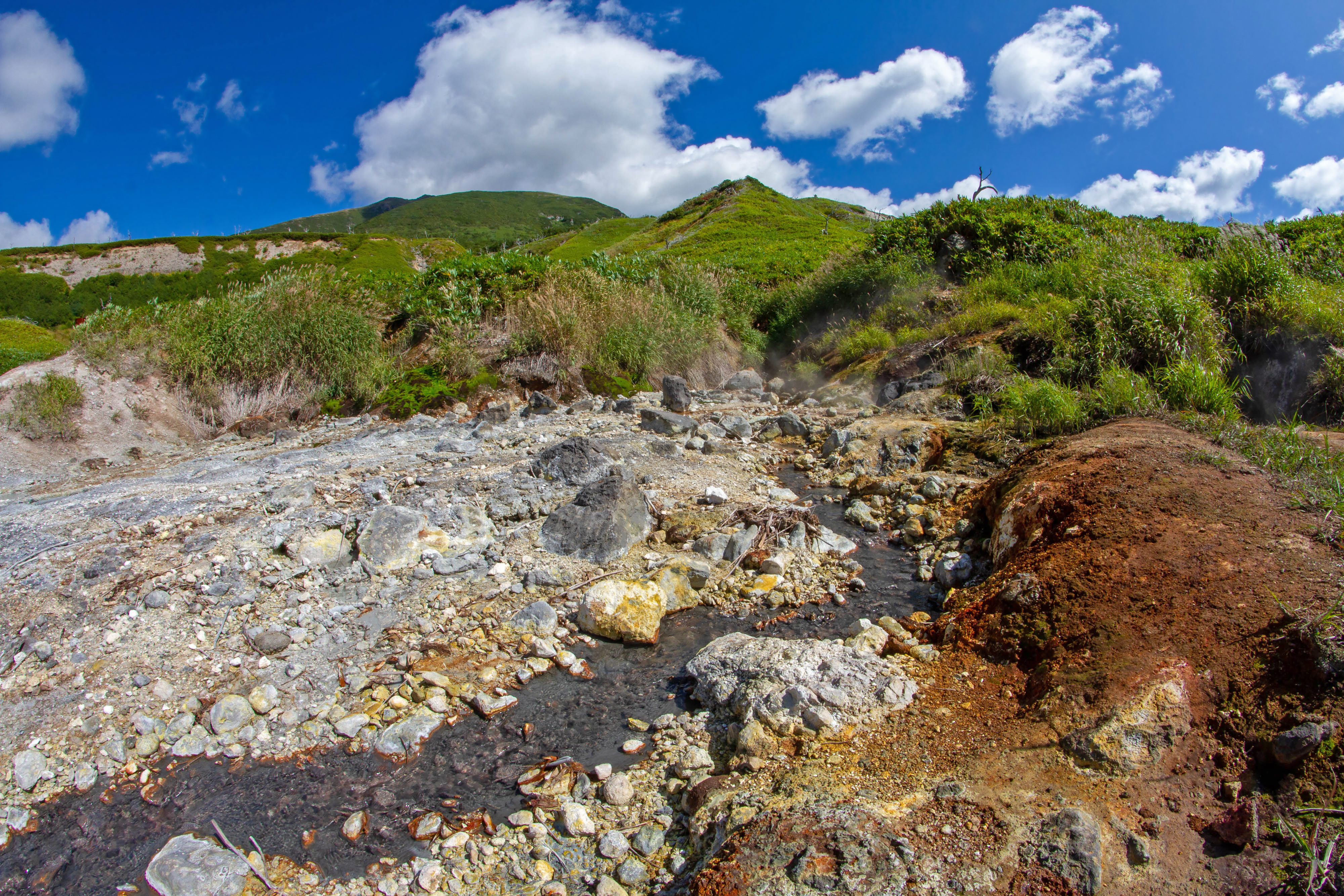 Iturup Island nature, fall 2019